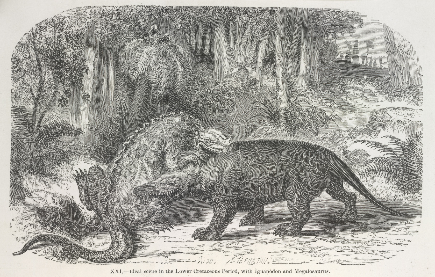 Dinosaurs fighting 'Ideal scene in the lower Cretaceous period, with Iguanodon and Megalosaurus'.